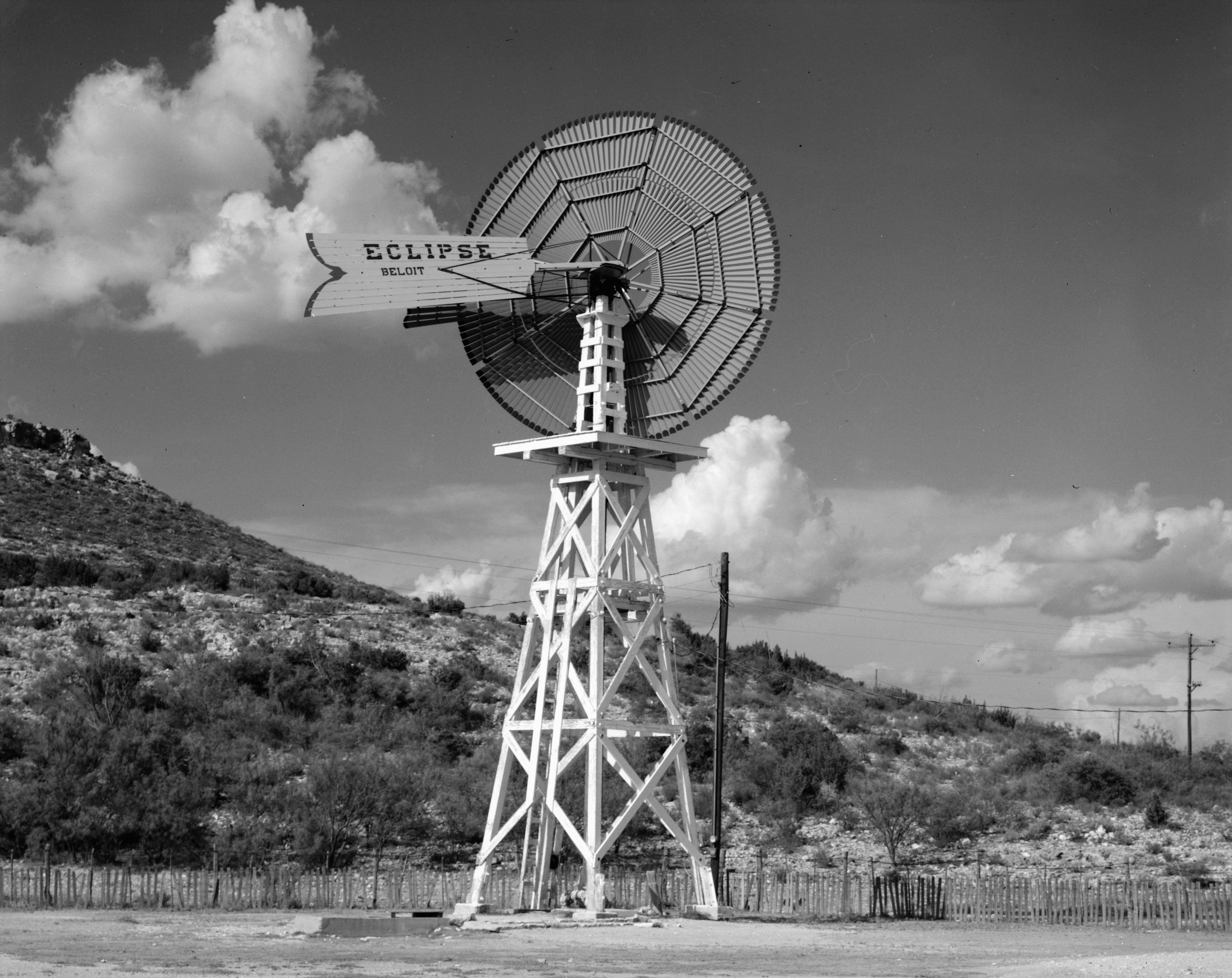 Comprehensive view of the Canon Ranch Railroad Eclipse Windmill, located on the Canon Ranch west of Sheffield in Pecos County, Texas, United States. Built in 1898, it is listed on the National Register of Historic Places.